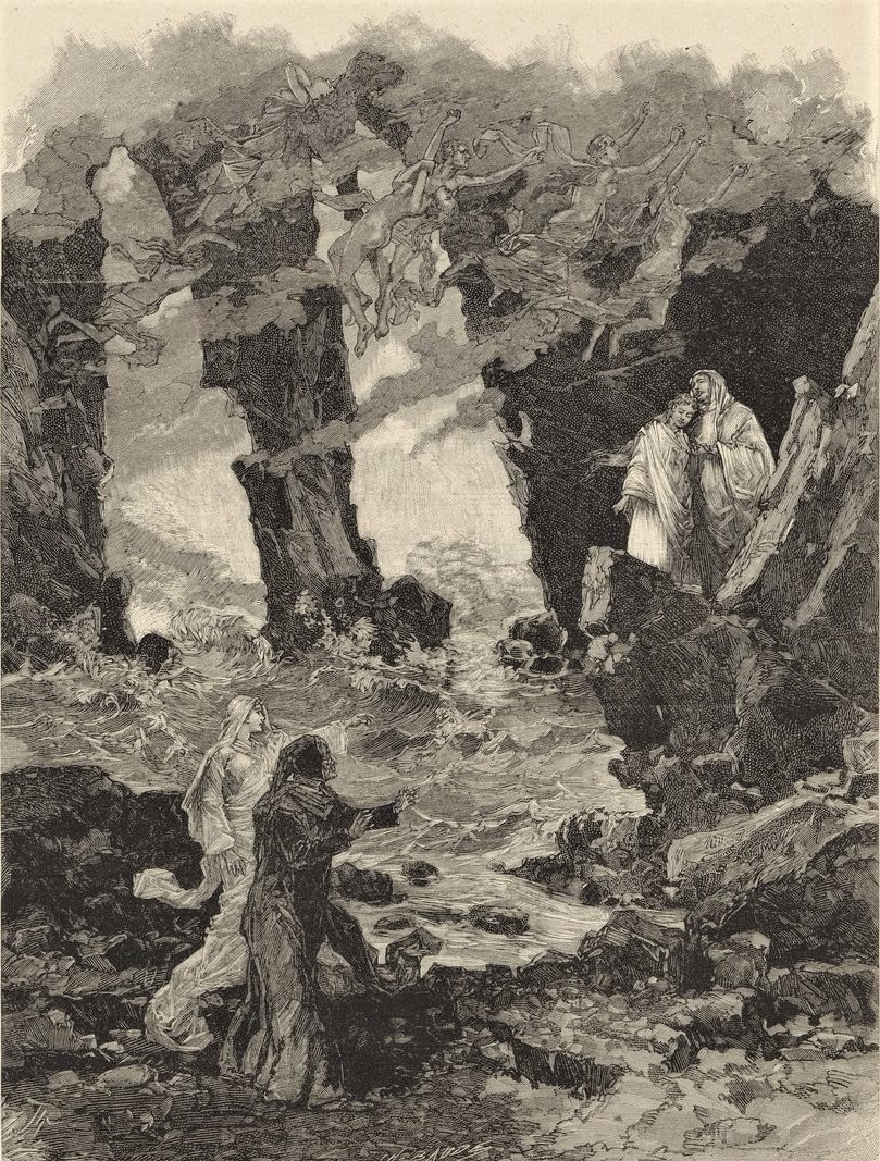 Illustration of the Prologue to Ambroise Thomas's opera Françoise de Rimini in its premiere production. The illustration was published in Le théâtre illustré